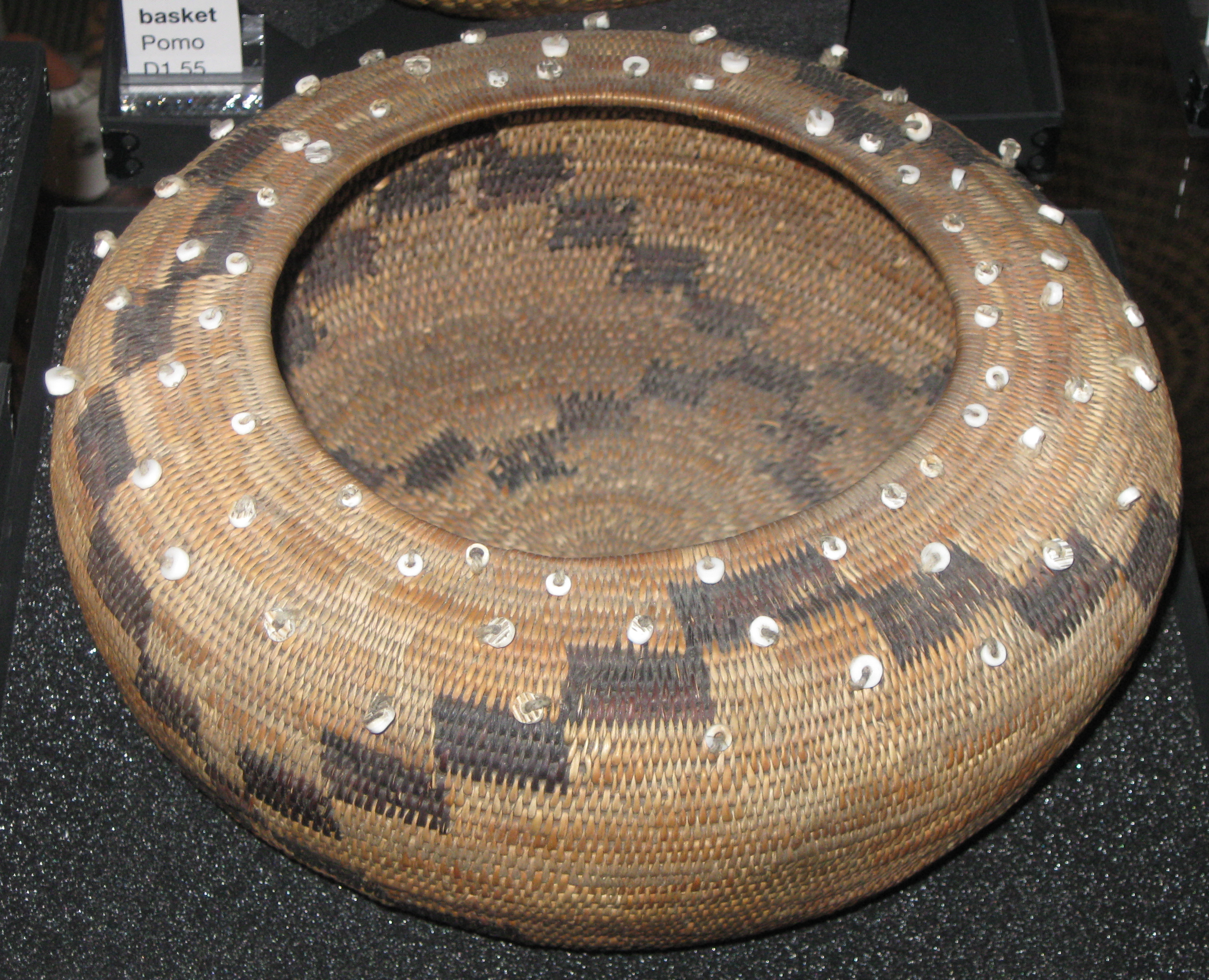 A Pomo Indian coiled basket with clamshell discs, now on permanent display at UBC's Museum of Anthropology in Vancouver, BC, Canada. Its museum catalogue number is D1.61.